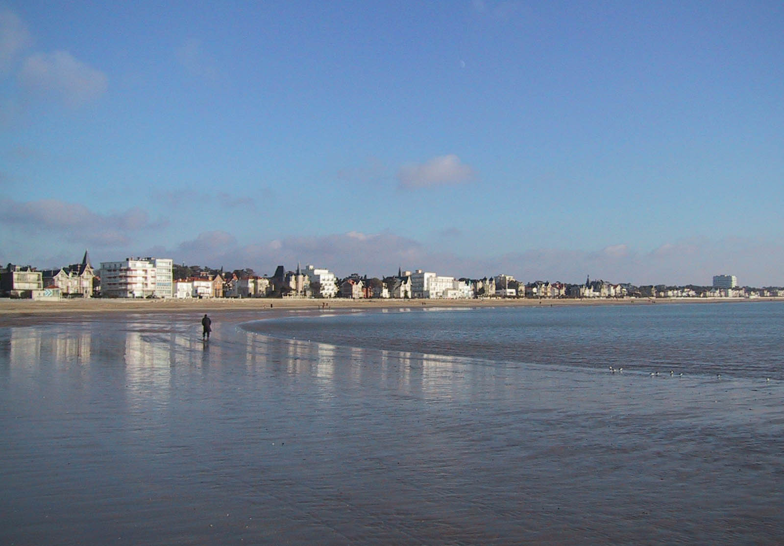 Beach of Royan in winter. Charente-Maritime (17), Poitou-Charentes, France, Europe.